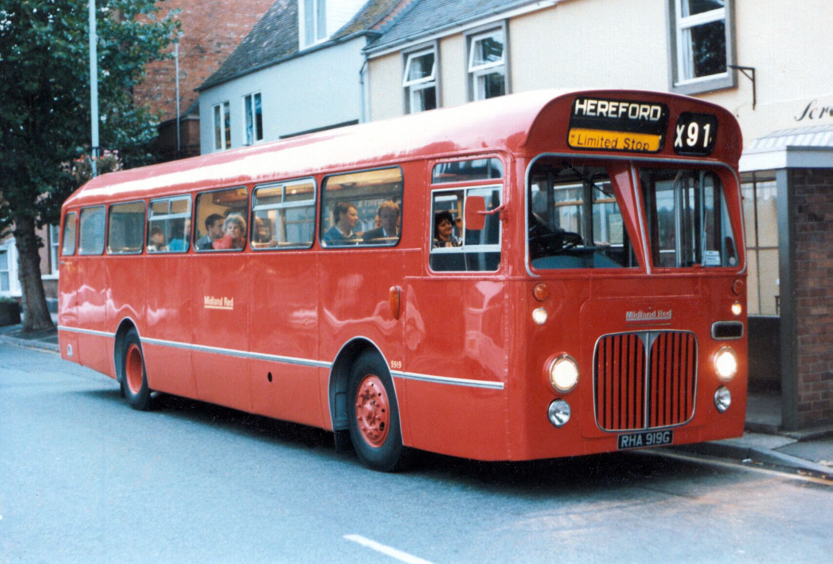 Doesn't she look nice!?